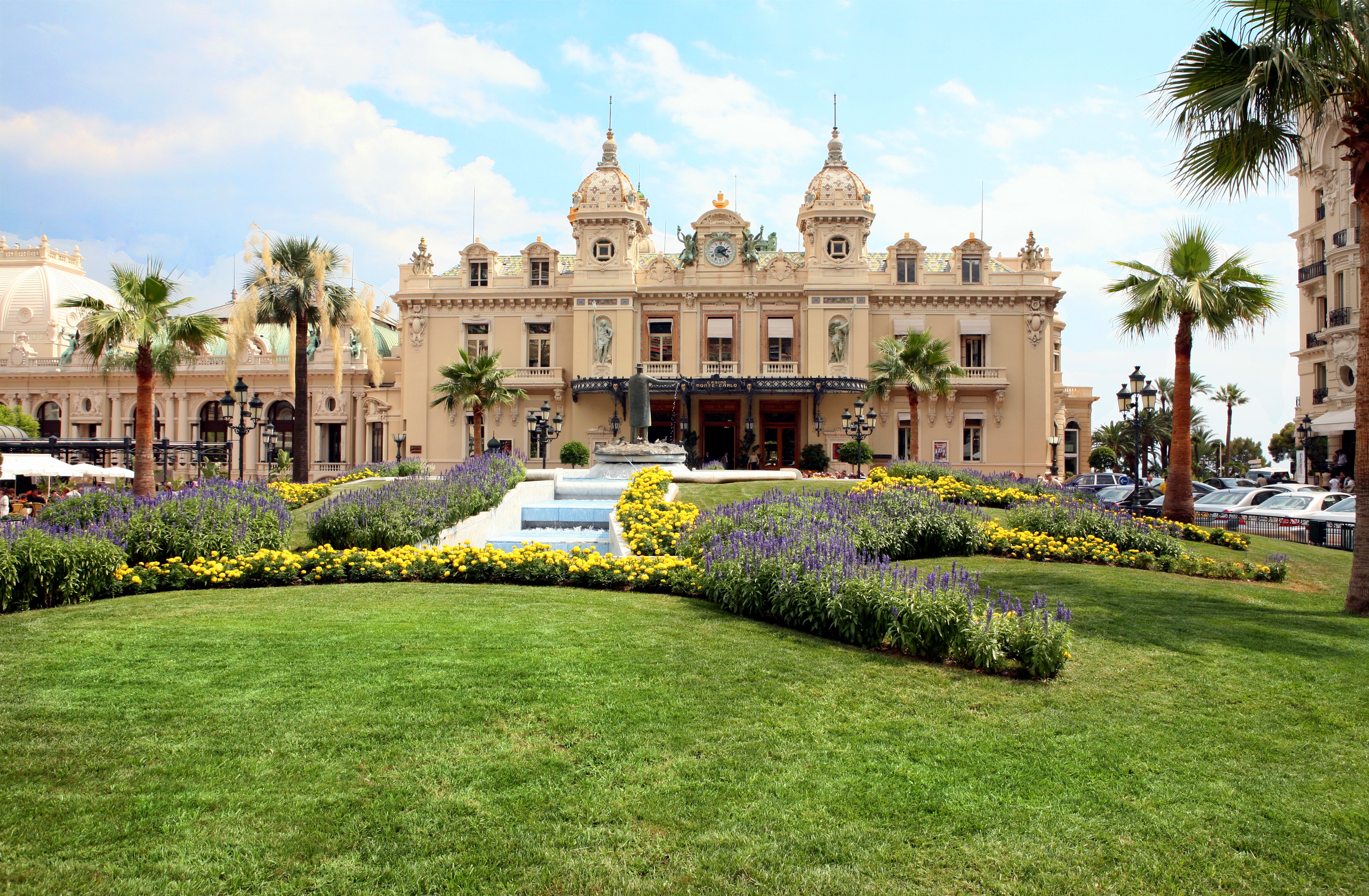 The Casino, Monte Carlo